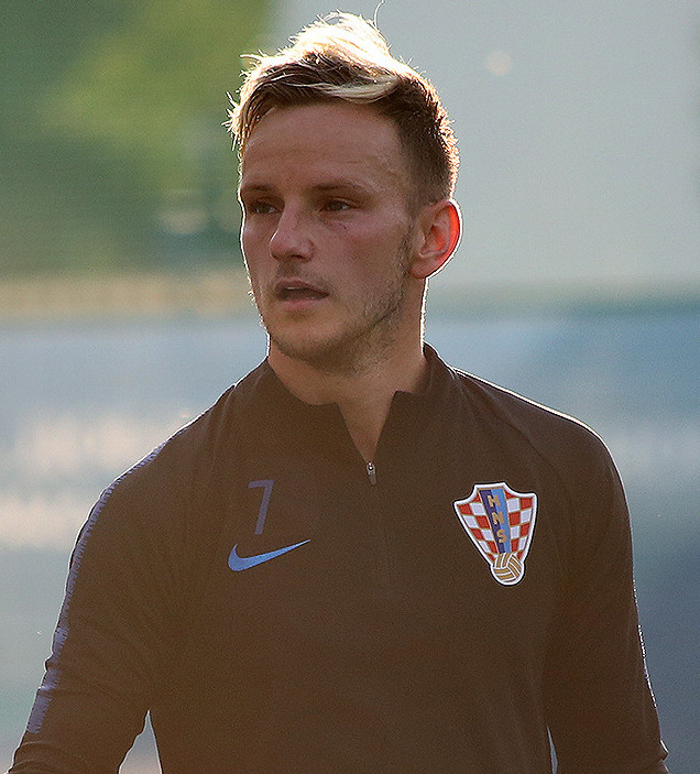 Ivan Rakitic training with Croatia at 2018 FIFA World Cup